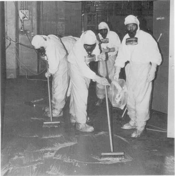 TMI personnel cleaning up the contaminated auxiliary building.